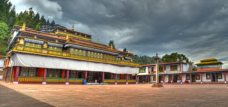 Rumtek Monastery, is a Tibetan Buddhist monastery located in the Indian state of Sikkim near the capital Gangtok.অসমীয়া: ছিক্কিমৰ গেংটকত অৱস্থিত "Rumtek Monastery" নামৰ তিব্বতীয় বৌদ্ধ মঠৰ দৃশ্য